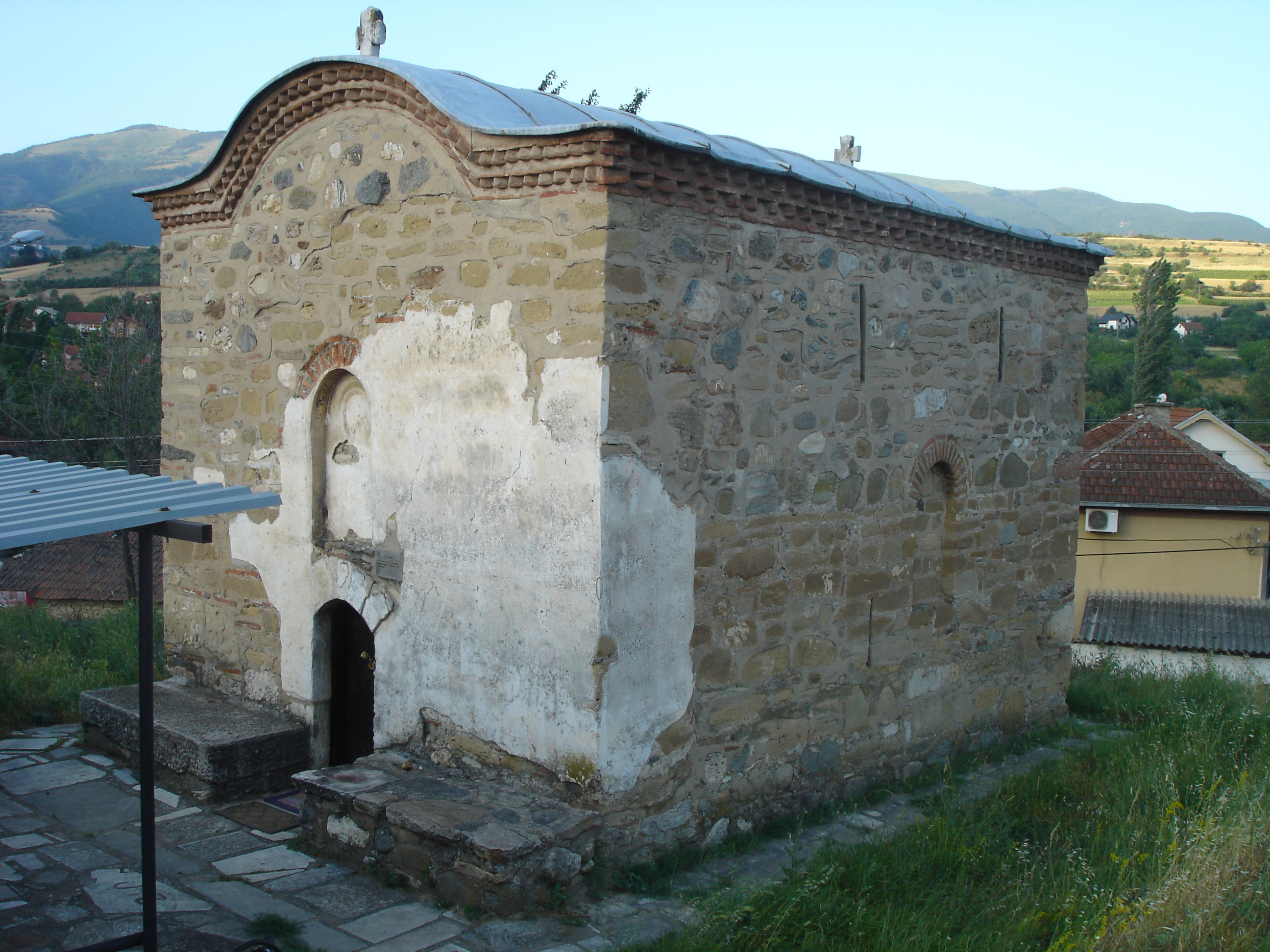 Medieval church St. Nicolas in Radishani, Macedonia